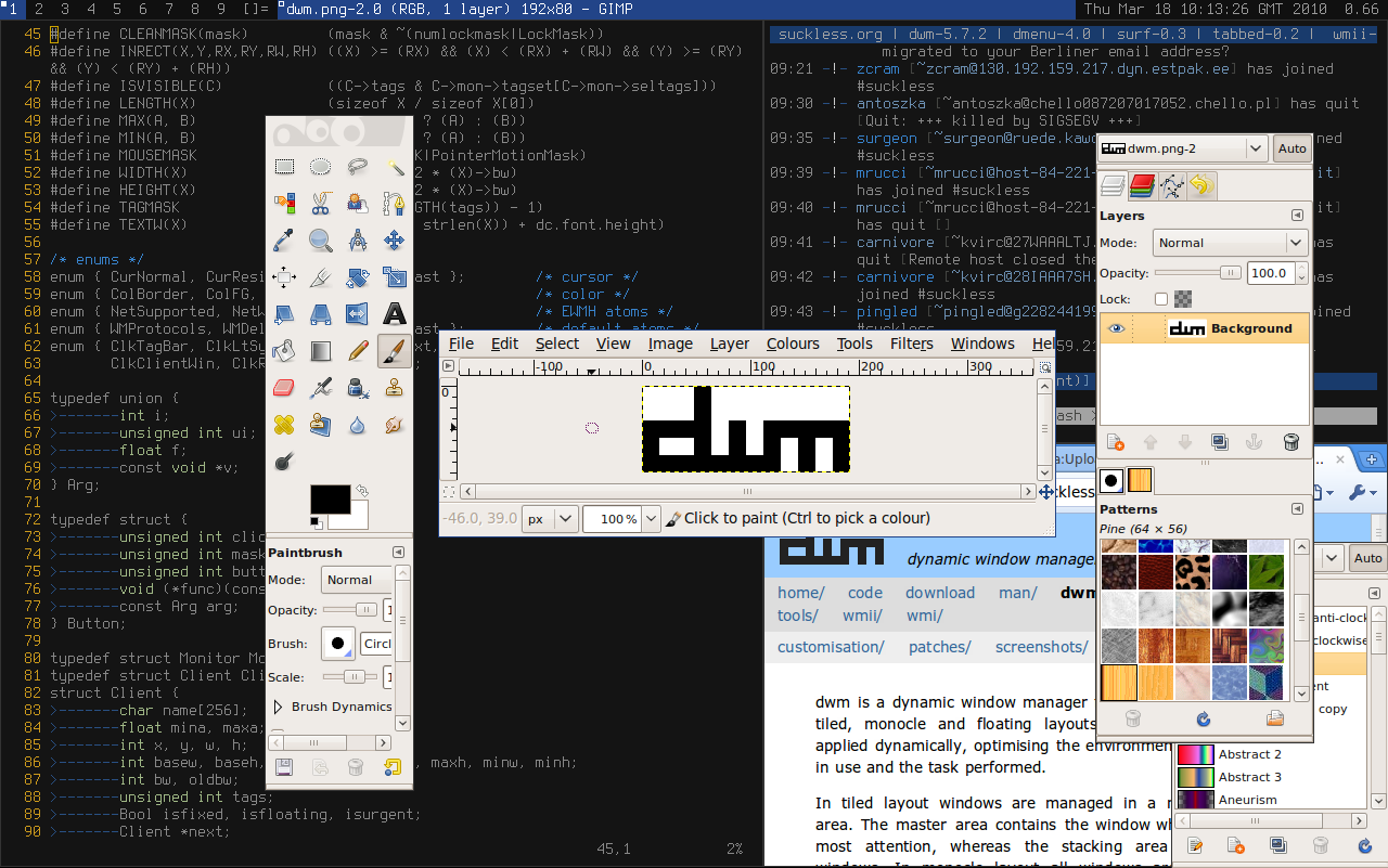 Screenshot of the dwm window manager in use